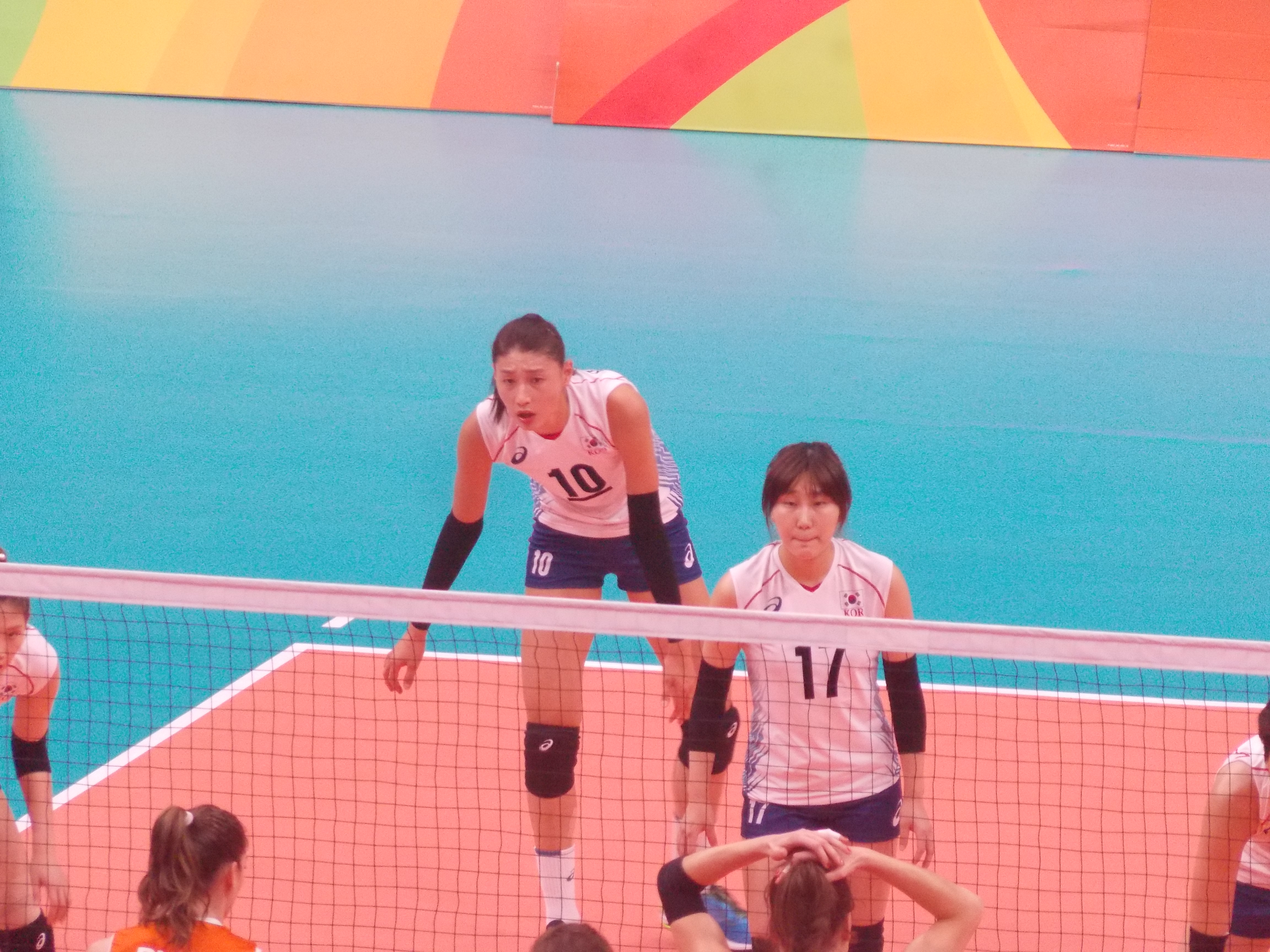 Volleyball at the 2016 Summer Olympics – Women's tournament: South Korea 1x3 Netherlands (19–25, 14–25, 25–23, 20–25).